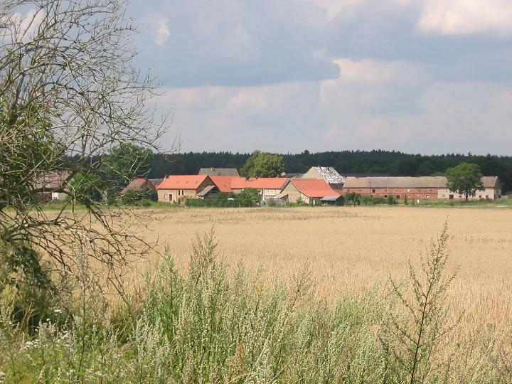 Nettgendorf, a village (part) of the municipality Nuthe-Urstromtal in Brandenburg, Germany